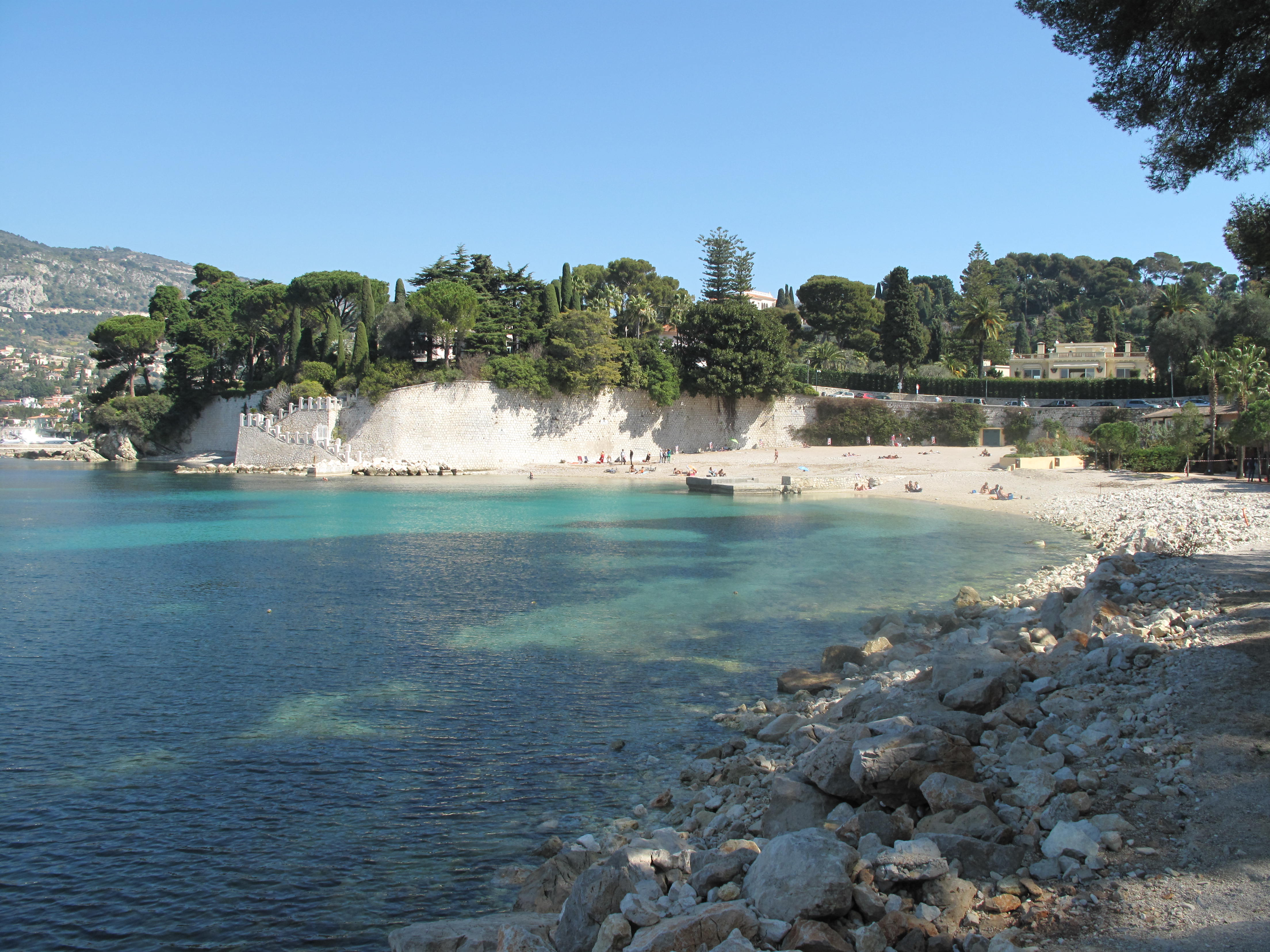 Beach of Passable in Saint-Jean Cap-Ferrat (Alpes-Maritimes, France).